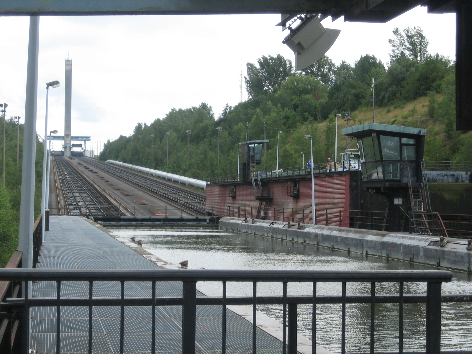 The inclined plane near Ronquières, Belgium. The right caisson is just leaving the nethr lock.